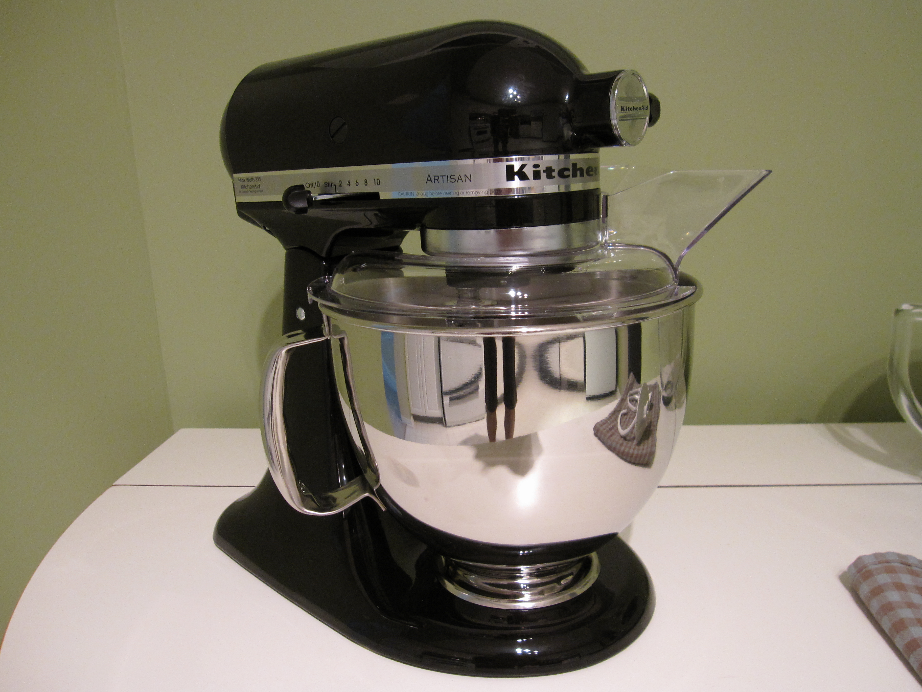 Sears had a special this week: a discount on KitchenAid's 5-quart Artisan Mixer, plus an extra glass mixing bowl with each purchase. So we finally took the plunge and crossed off an item from our kitchen wishlist.